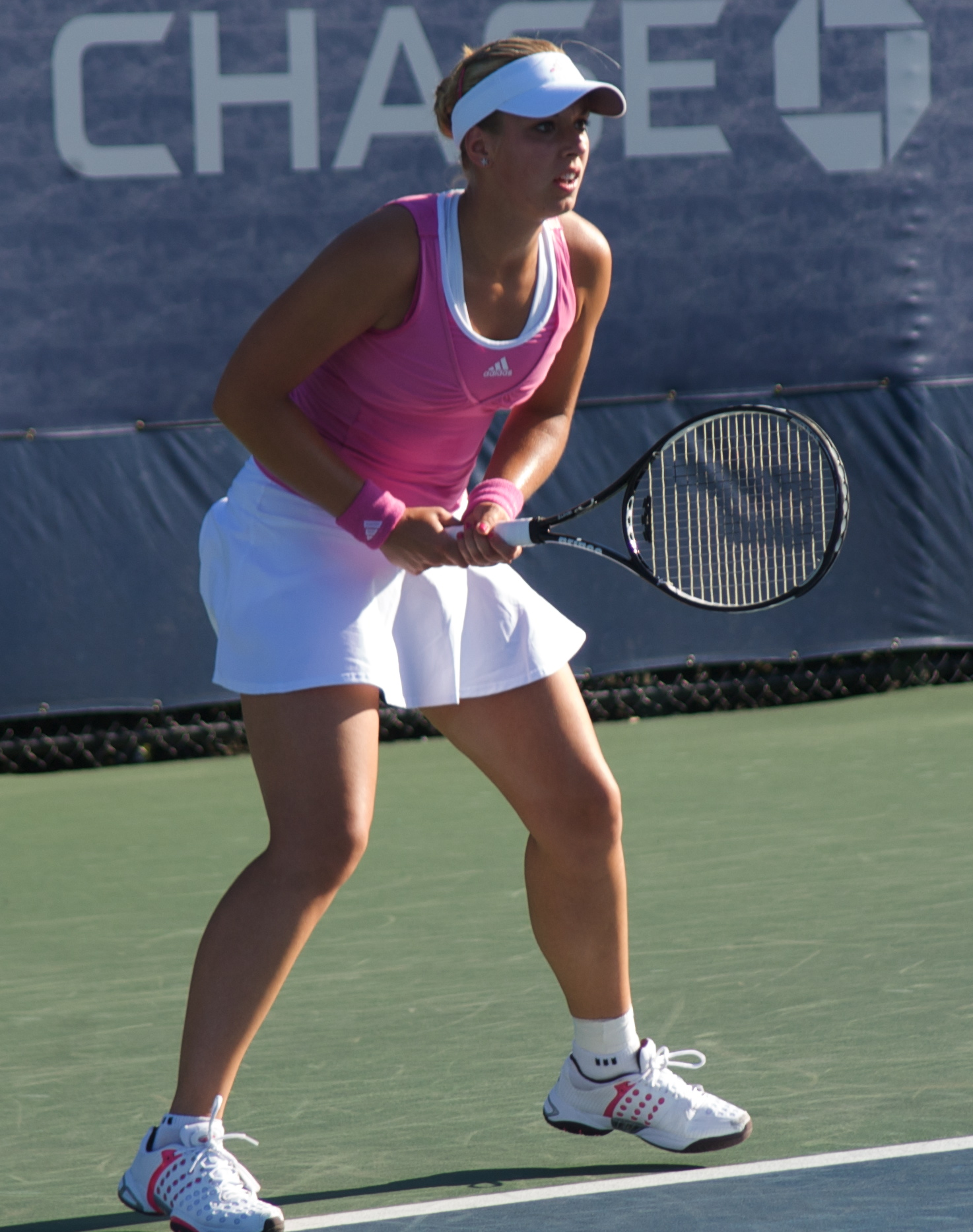 Sabine Lisicki at the 2008 US Open – Women's Singles